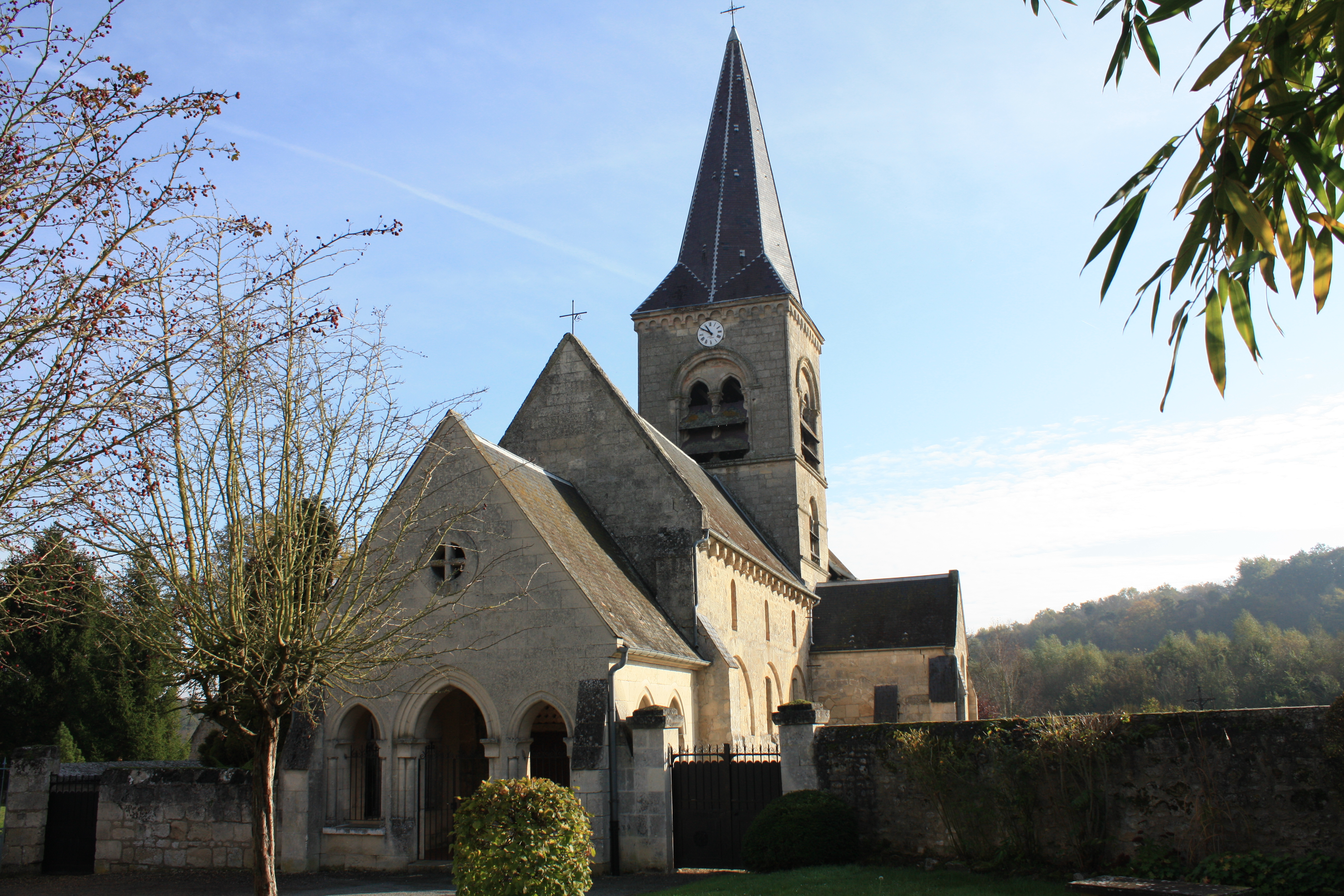 Église Saint-Pierre de Jouaignes 3